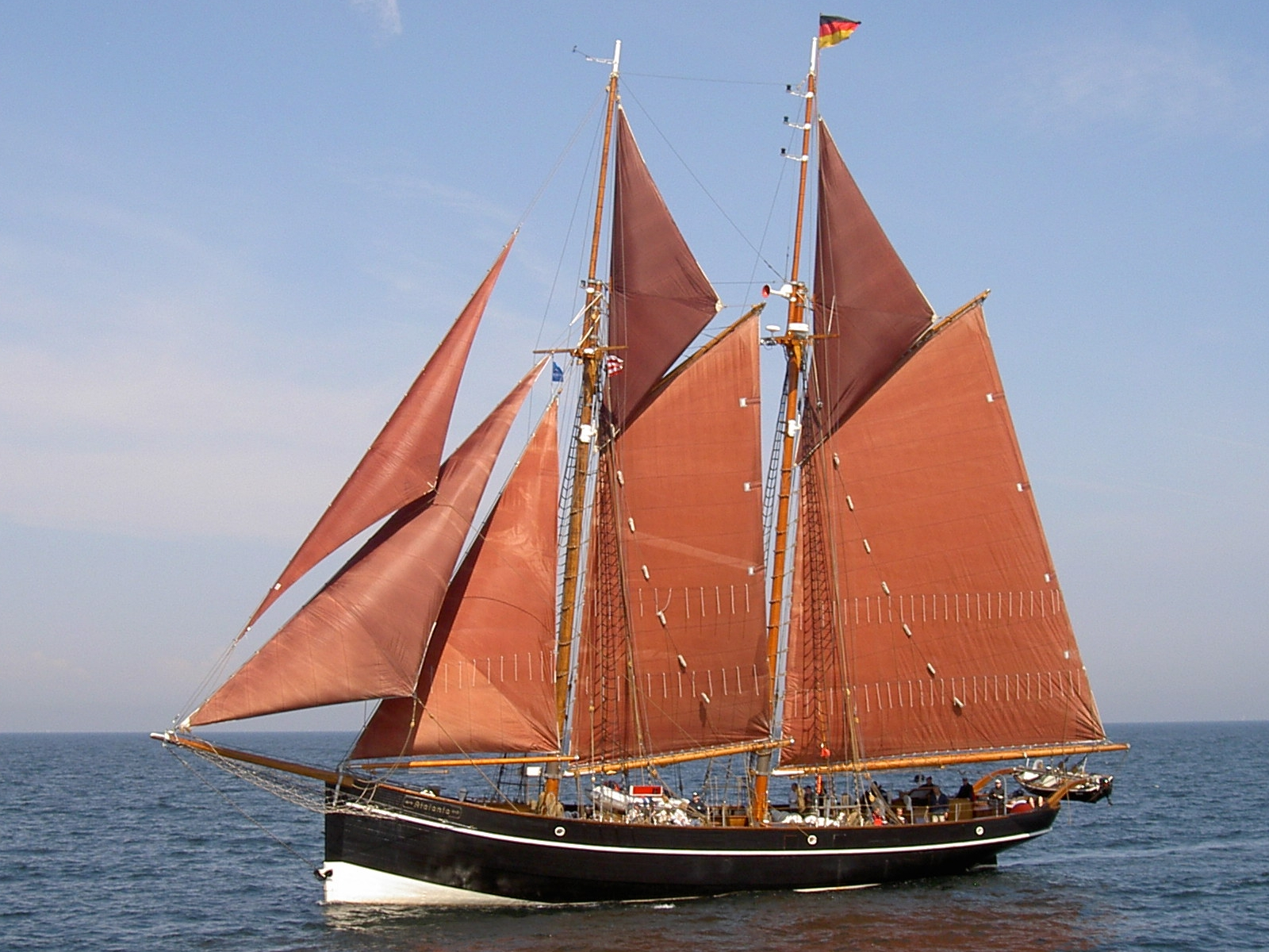 The schooner Atalanta from Wismar, Germany.